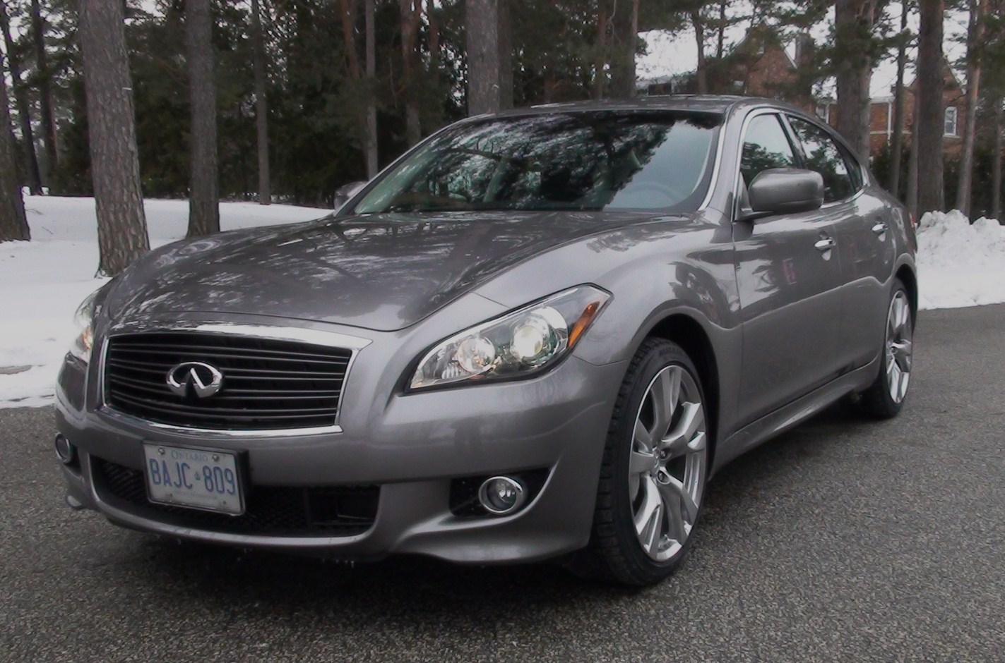 From Tino Rossini's Reviews.